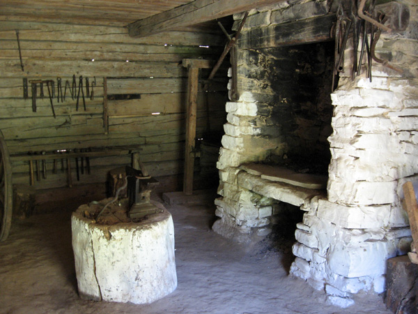 Forge interior in Shevgenko Hai in Lviv, Ukraine